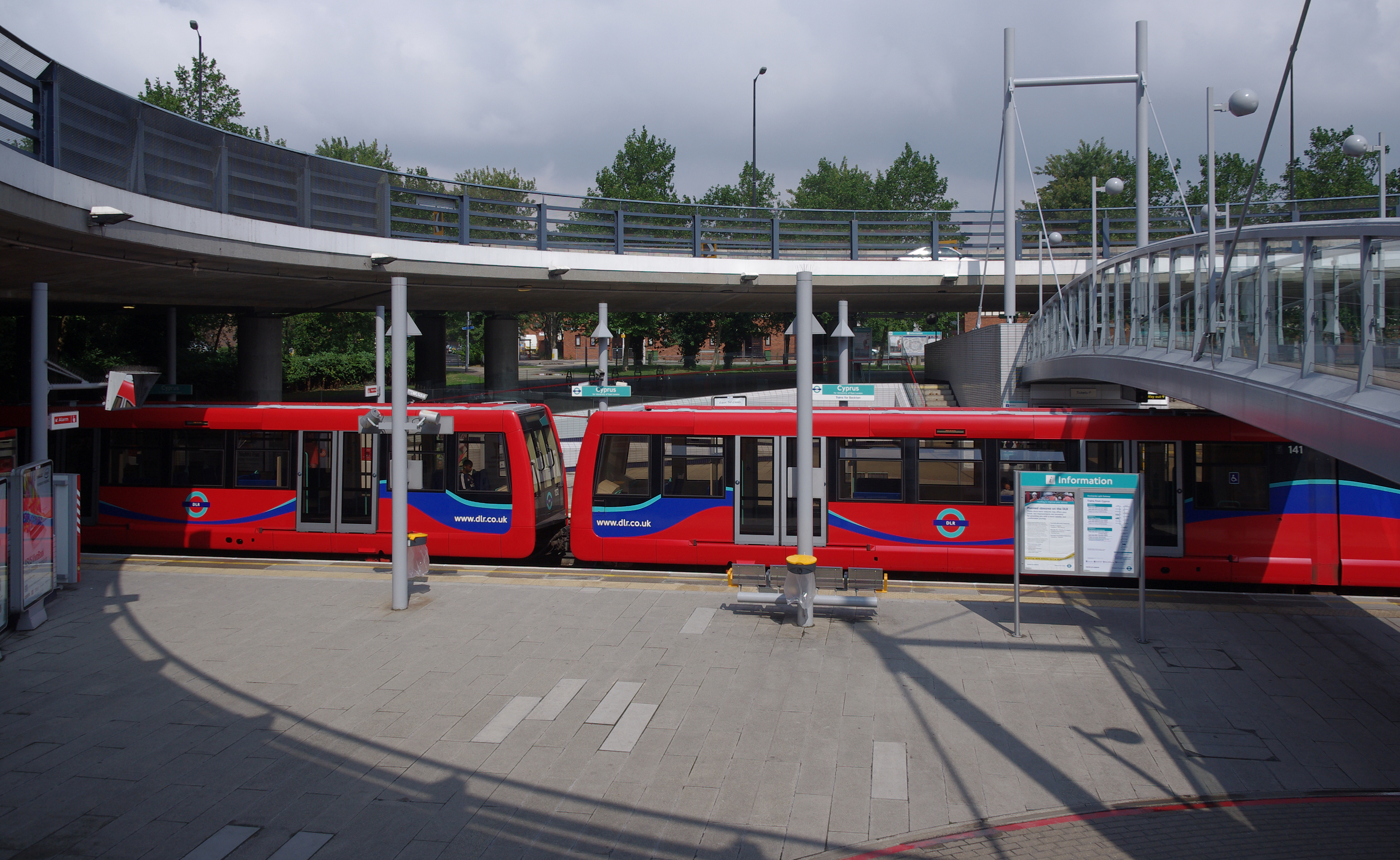 DLR type B07 EMUs 132 and 141 arrive at Cyprus with a service for Beckton.